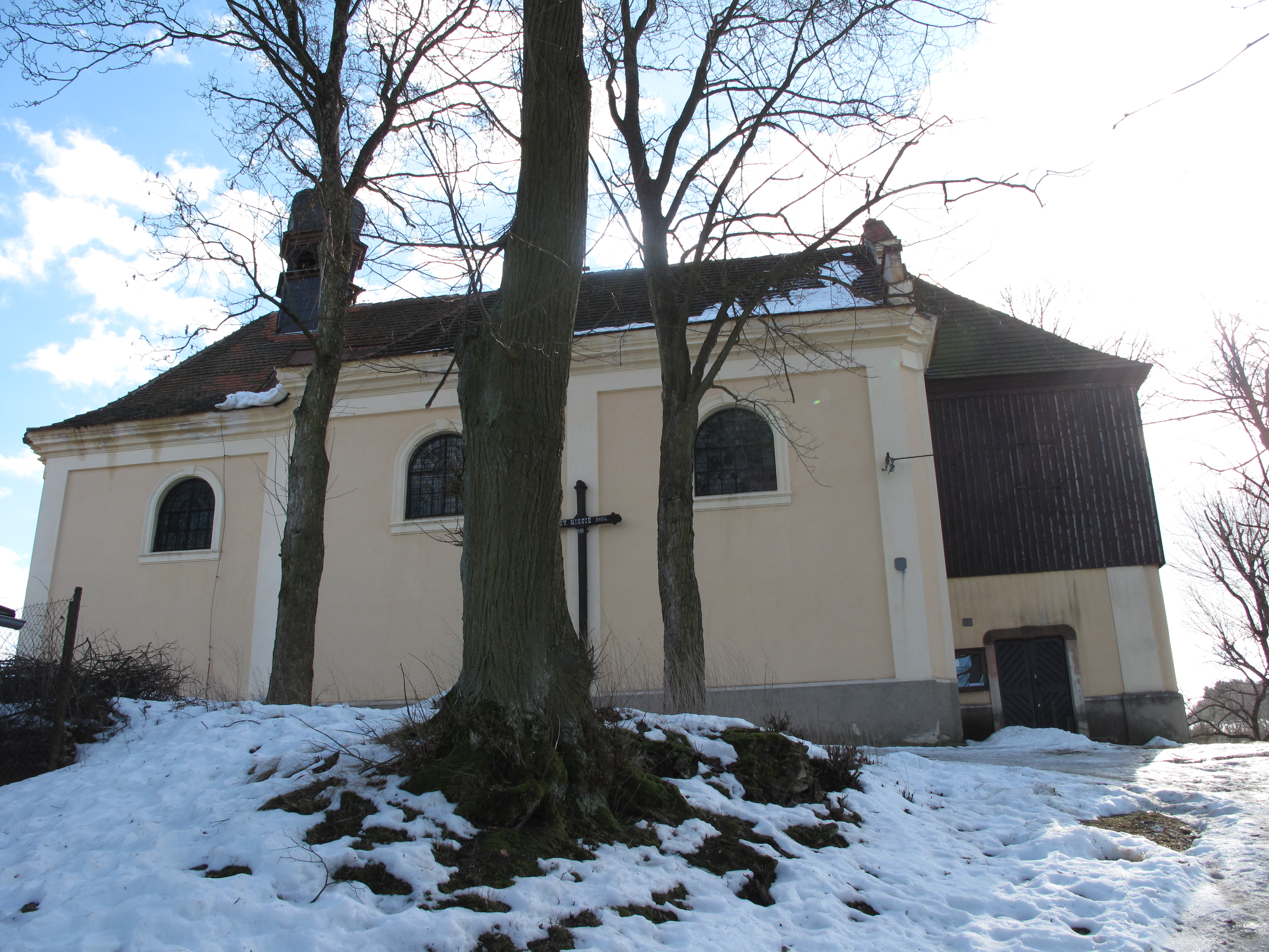 The Church of St. John Nepomuk in Stříbrná Skalice village, Prague-East District, Czech Republic. This photograph was taken within the scope of the 'Czech Municipalities Photographs' grant.